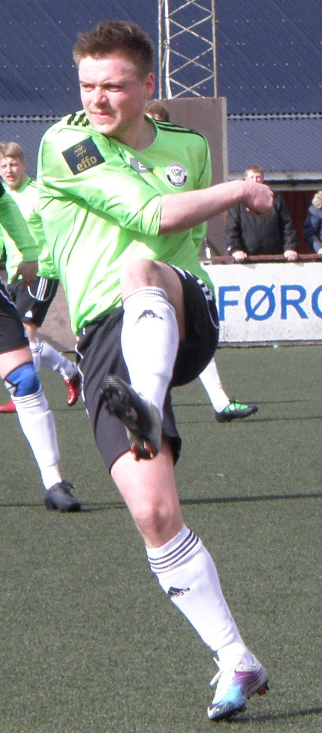 Súni Olsen is a Faroese football player, a midfielder, who currently (2012) plays for HB Tórshavn and the Faroe Islands national team. He has earlier played for the Danish clubs Aab Aalborg and Viborg FF, for the Dutch club PEC Zwolle and for the Faroese clubs Víkingur and Gøta. Føroyskt: Súni Olsen er ein føroyskur fótbóltsleikari, verju- og miðvallaleikari. Hann spælir í løtuni við B36 (2012) og á føroyska A-landsliðnum. Hann hevur áður spælt fyri donsku feløgini AaB og Viborg FF, hollendska felagið PEC Zwolle og fyri føroysku feløgini Víking og GÍ.